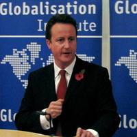 David Cameron is a British politician, Leader of the Conservative Party